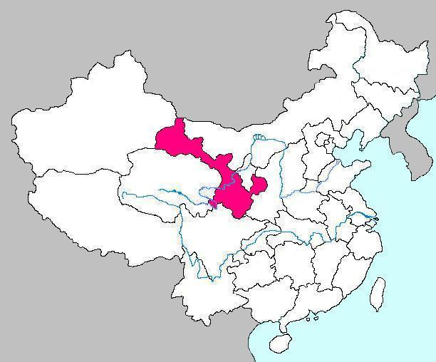 Maps of Gansu Province of China.